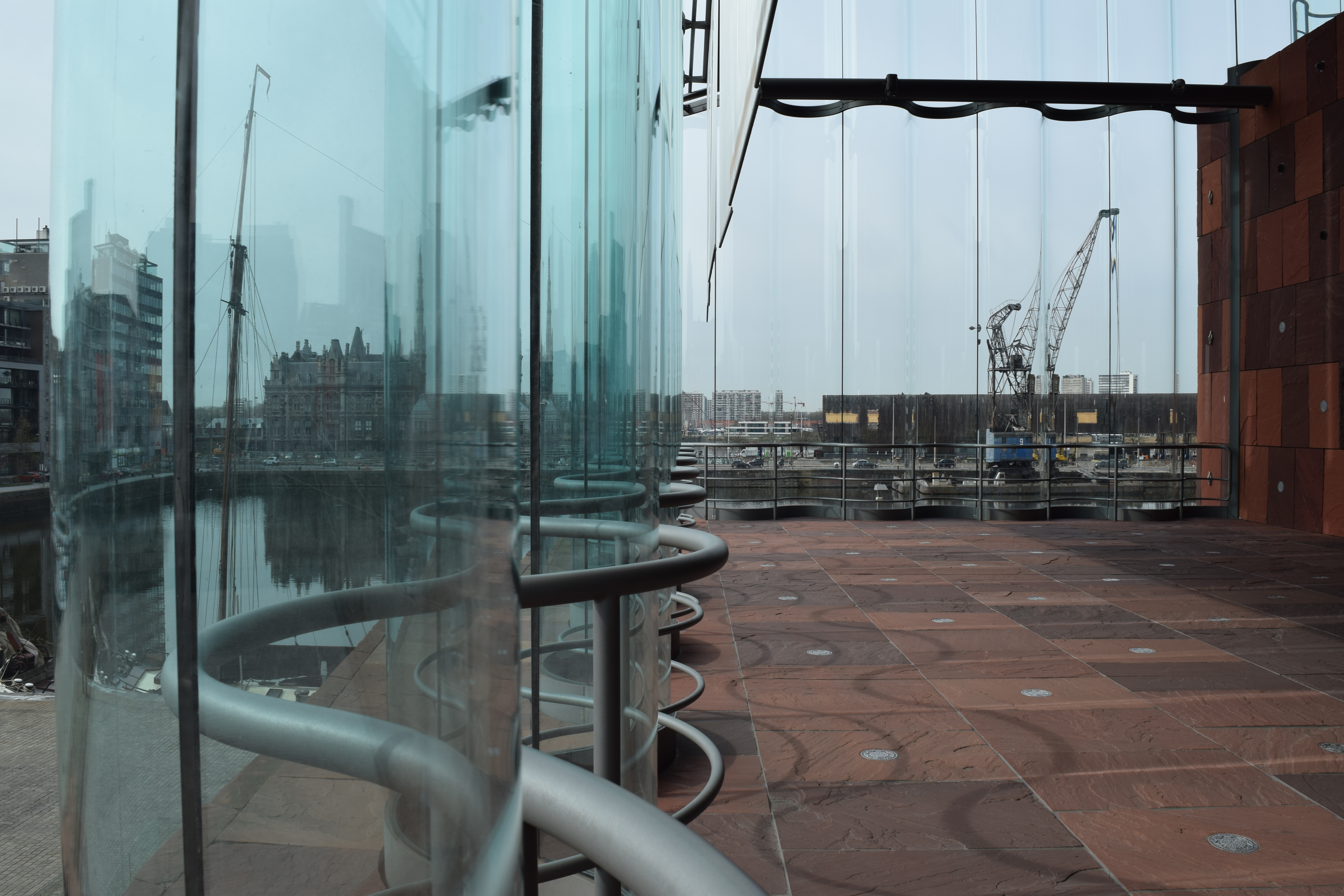 Curved glass viewed from inside the MAS museum (Antwerp, BE)